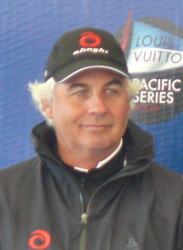 Brad Butterworth - Louis Vuitton Pacific Series 2009 Final Press Conference Auckland, New Zealand